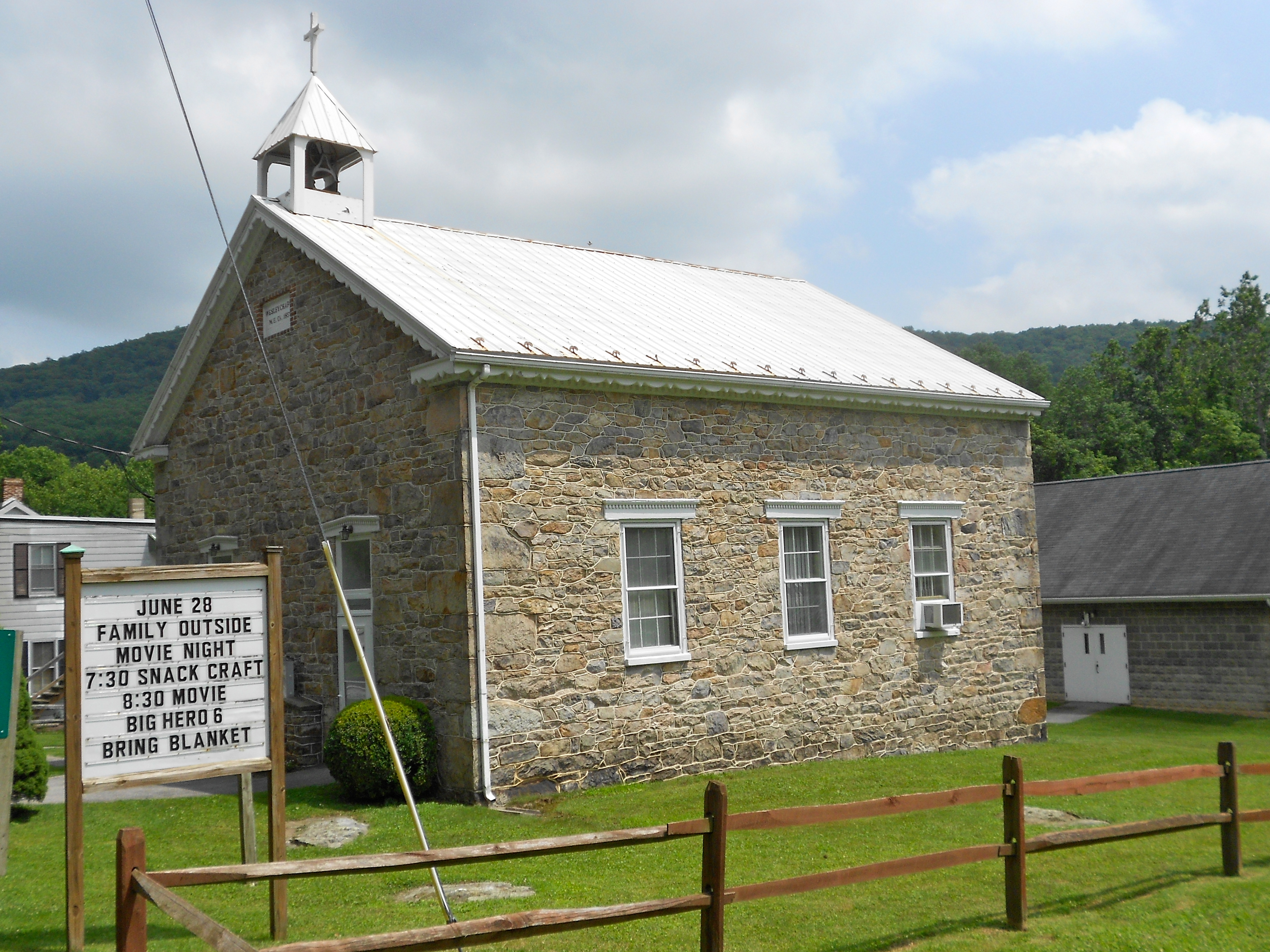 Wesley United Methodist Church, Hamiltonban Township, Adams County, Pennsylvania. North of the township line with Liberty Township on Old Waynesboro Road.